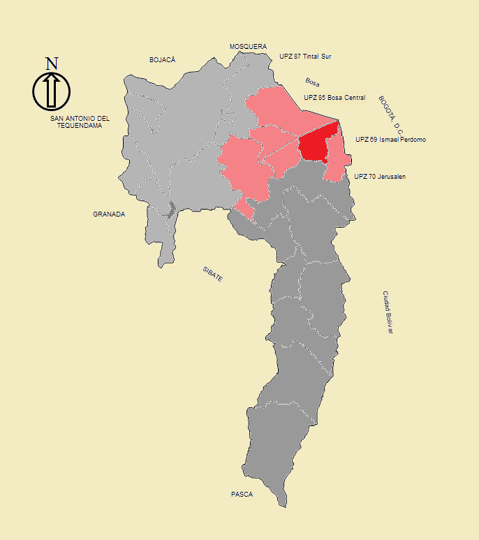 Commune 5 San Mateo map, Municipality of Soacha (department of Cundinamarca, Colombia)